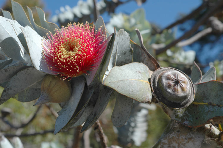 Foliage, flower and fruit of Eucalyptus rhodantha in the Peter Francis Points Arboretum, Colerain, Victoria